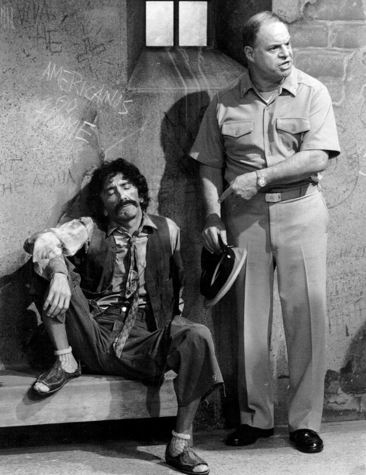 Photo from the television program CPO Sharkey. Pictured are Don Rickles (Sharkey) and Sosimo Hernandez (cellmate) in a Tijuana jail.